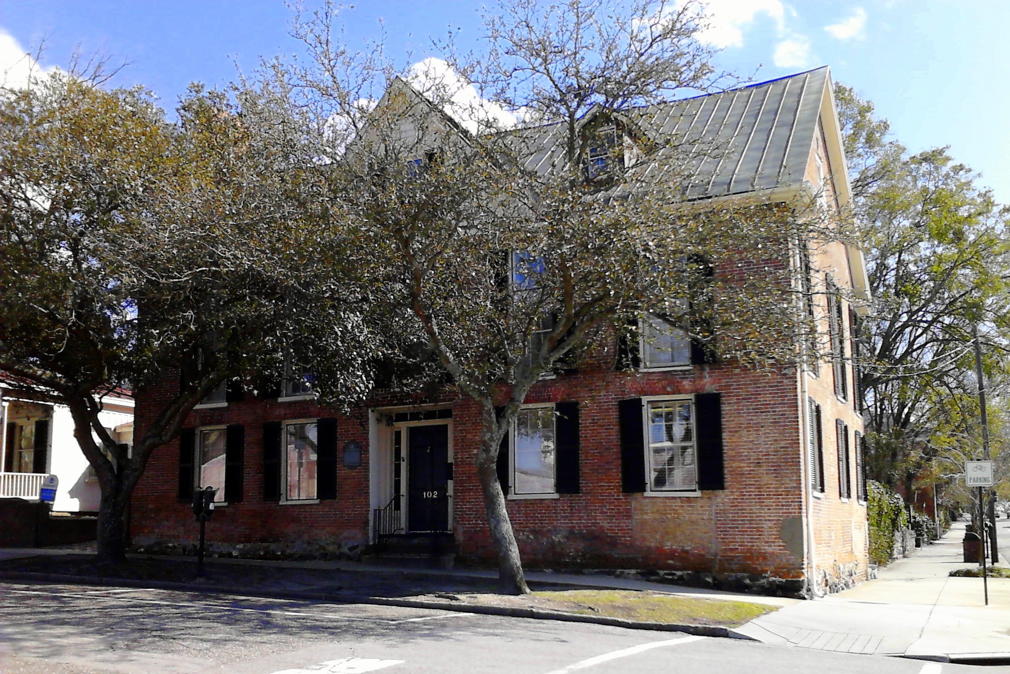 The Mitchell-Anderson House, at the corner of Front and Orange Streets, was built in 1738 and is the oldest surviving structure in Wilmington, North Carolina.